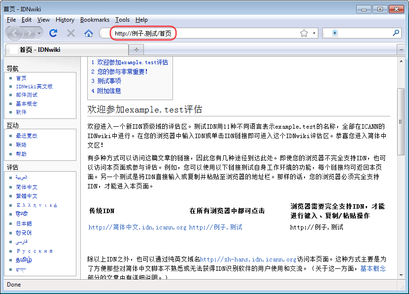 Internationalized domain name (IDN) with Simplified Chinese characters. Browser is Mozilla Firefox, with proprietary icons deleted. The content of the shown webpage is free.